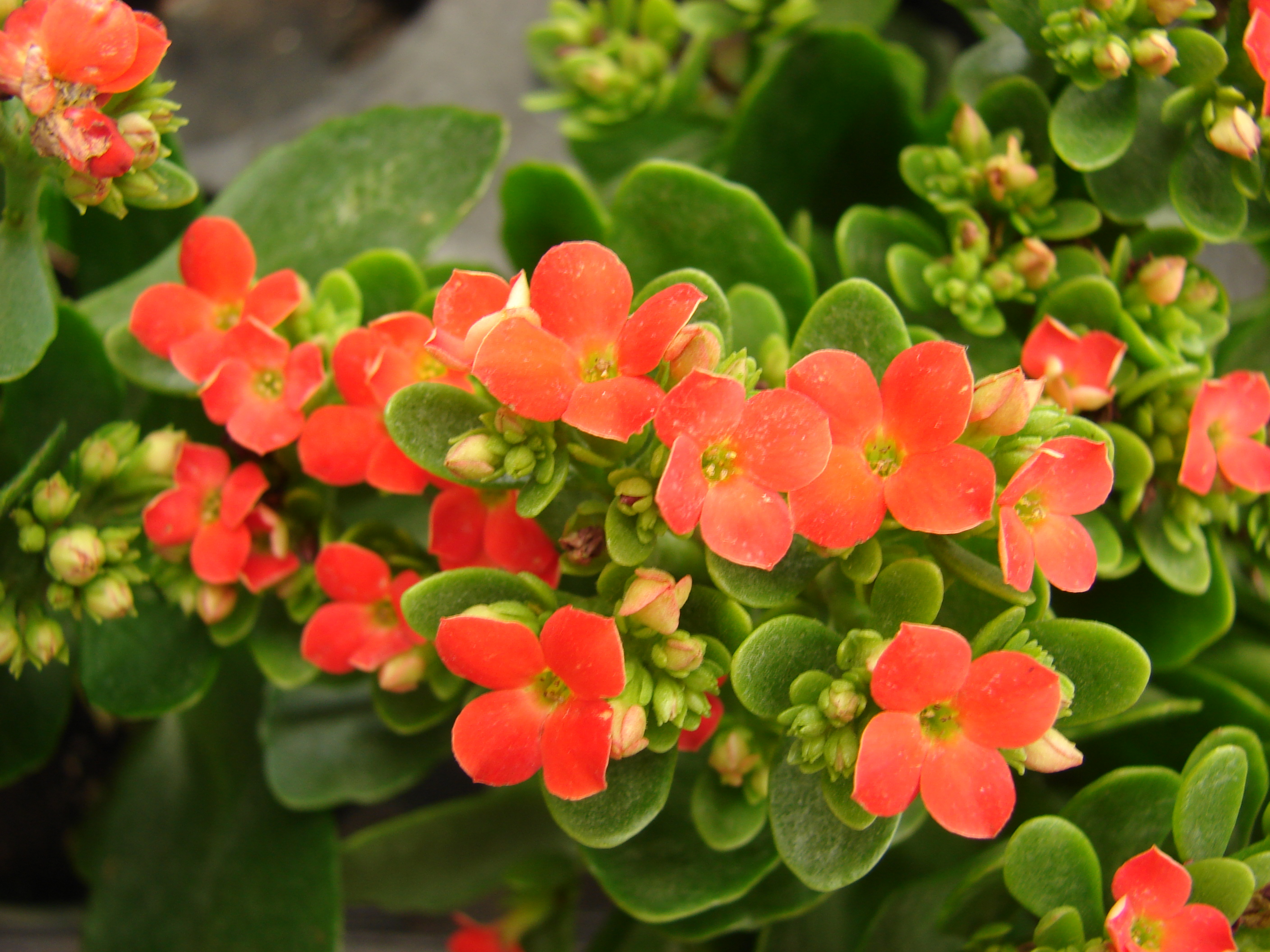 Kalanchoe blossfeldiana (flowers). Location: Maui, Walmart Kahului